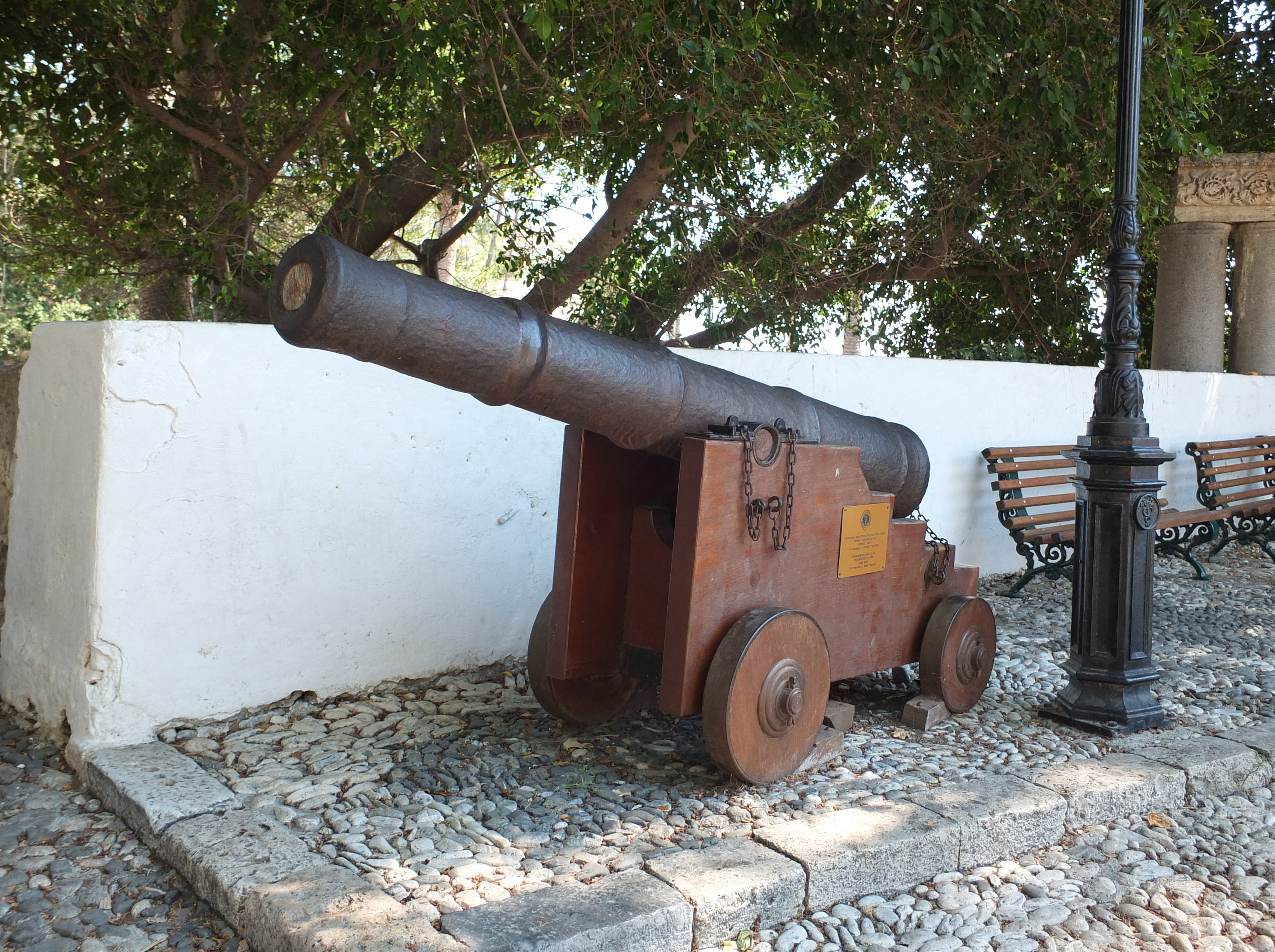 Cannon at the entrance to the castle of the Knights of Saint John on Kos.